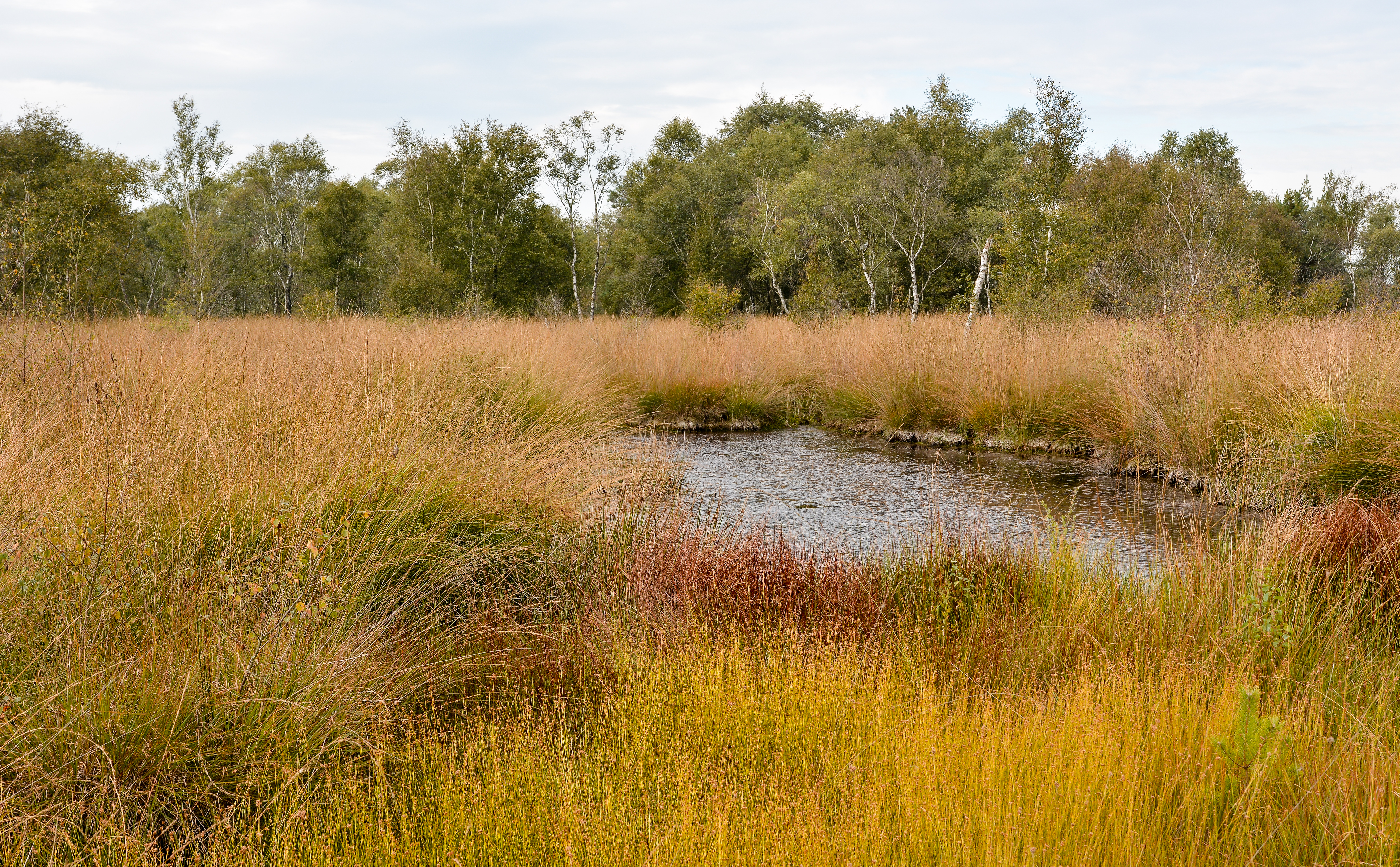 Landscape at De Groote Peel National Park (Netherlands)